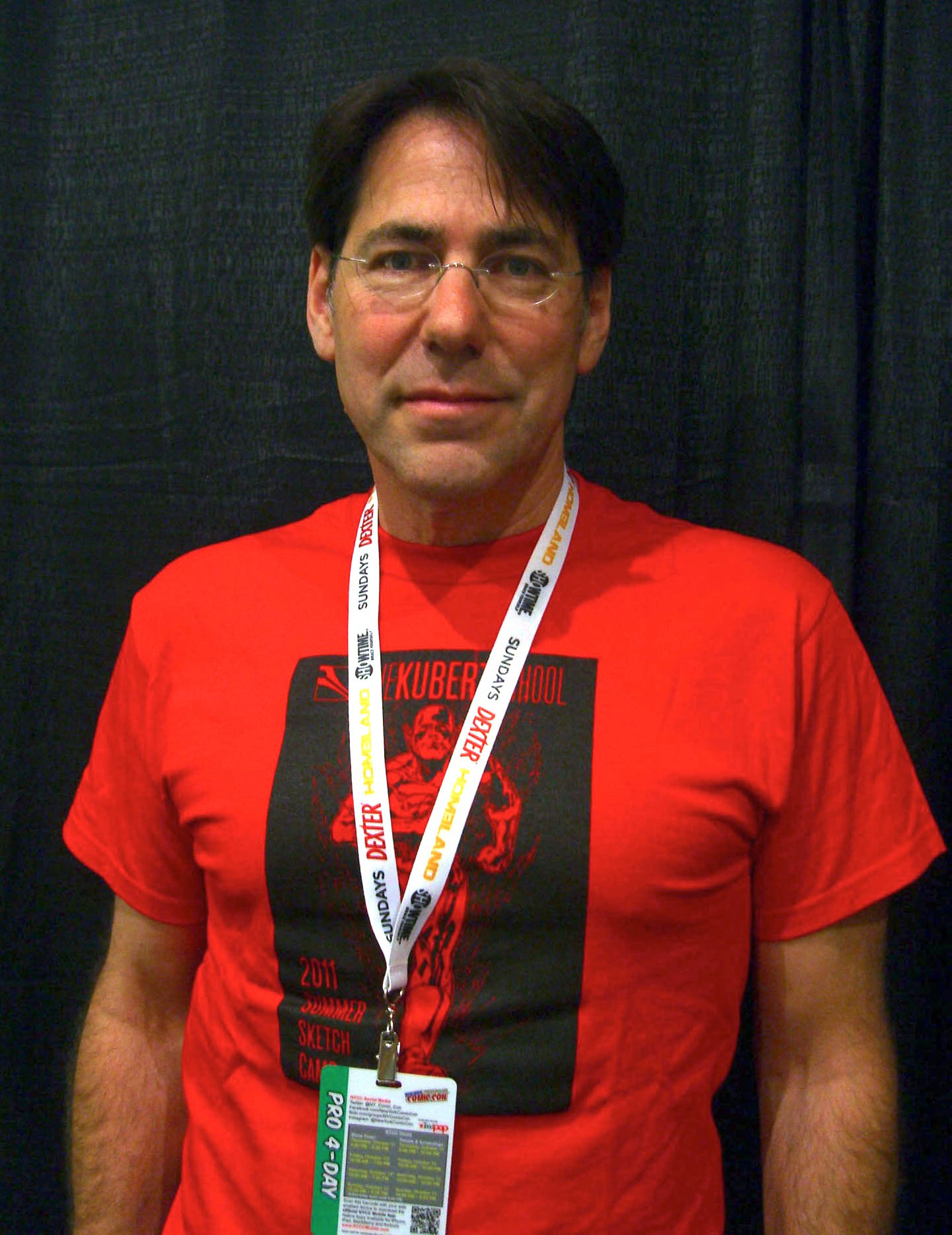 Comics creator Adam Kubert following a panel discussion on the Kubert School on Day 2 of the 2012 New York Comic Con, Friday October 12, 2012. This photo was created by Luigi Novi. It is not in the public domain, and use of this file outside of the licensing terms is a copyright violation.